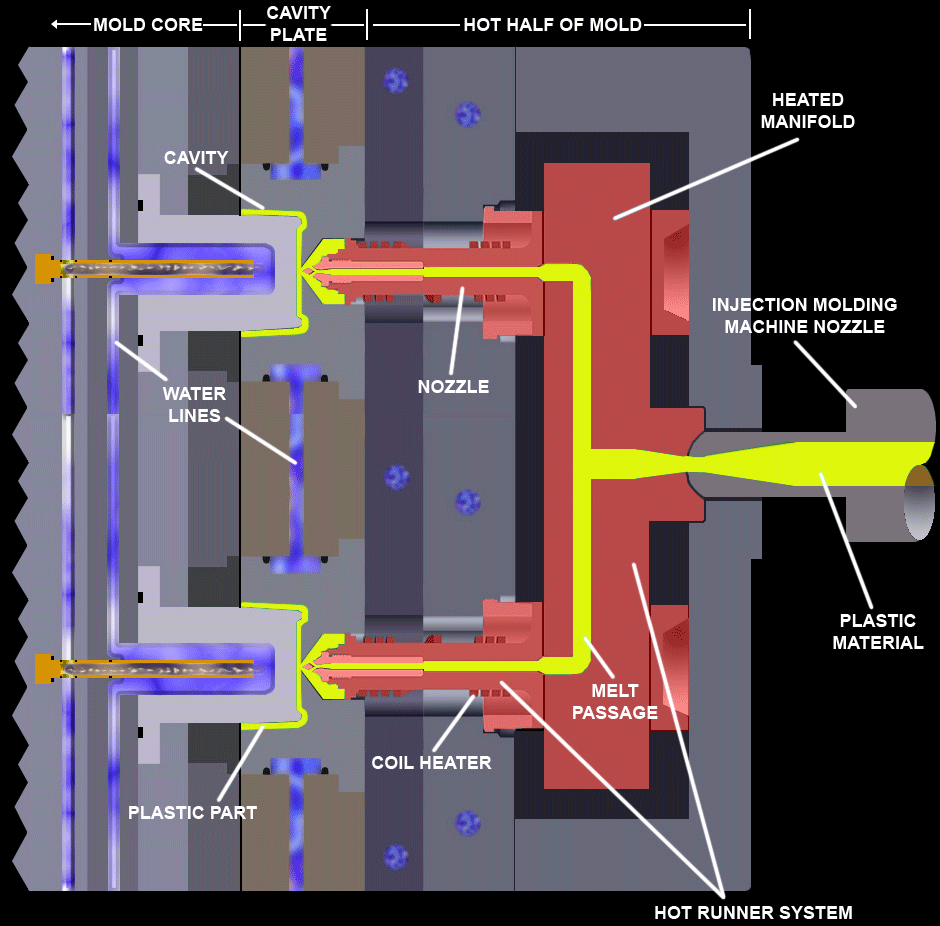 Cross-section of platic injection mold showing Hot Runner System highlighted. In this image, the mold is shown in the injection cycle. This image was created by Orycon Control Technology Inc.